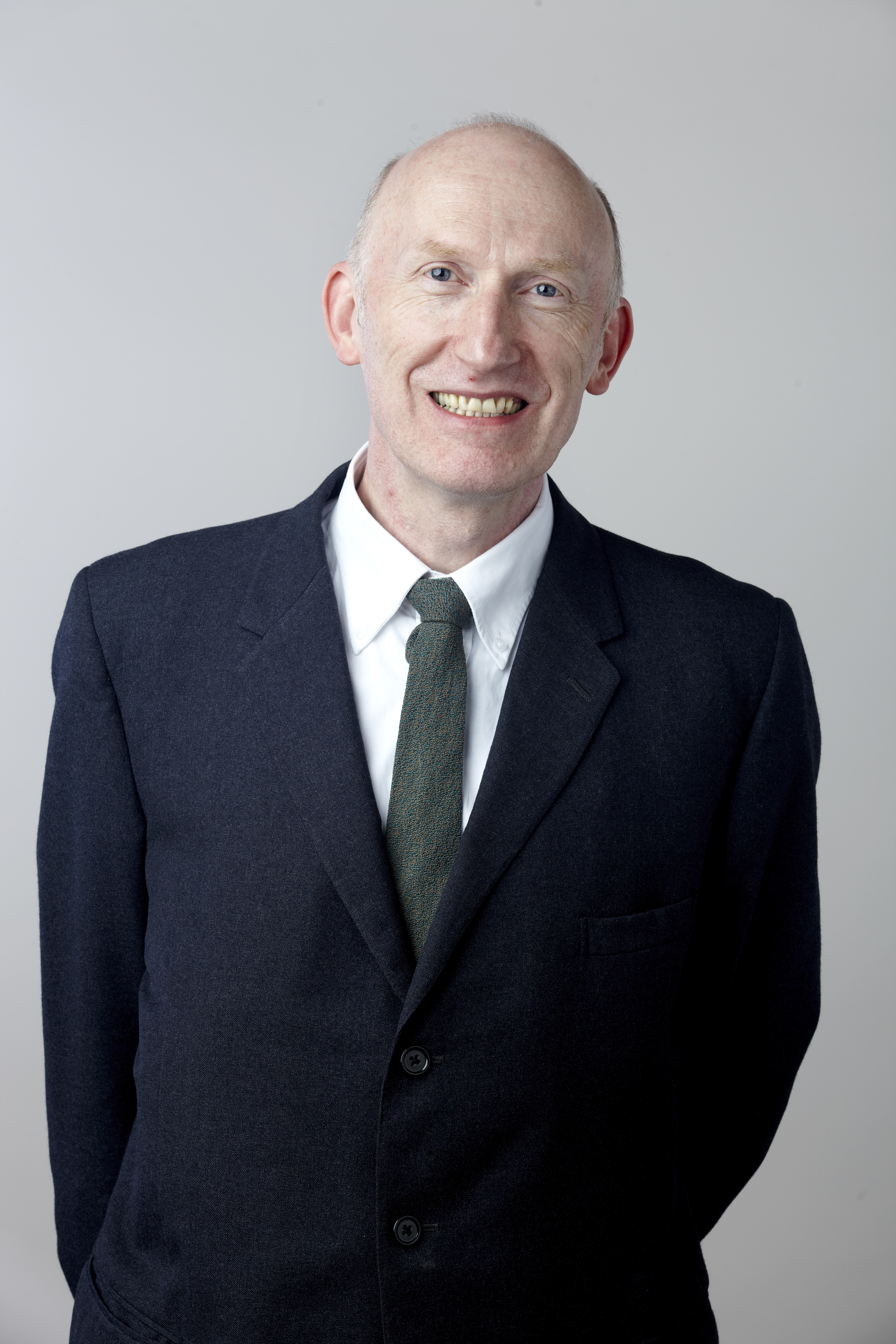 Professor Bill Rutherford FRS, Royal Society Fellow elected 2014 Attribution: The Royal Society